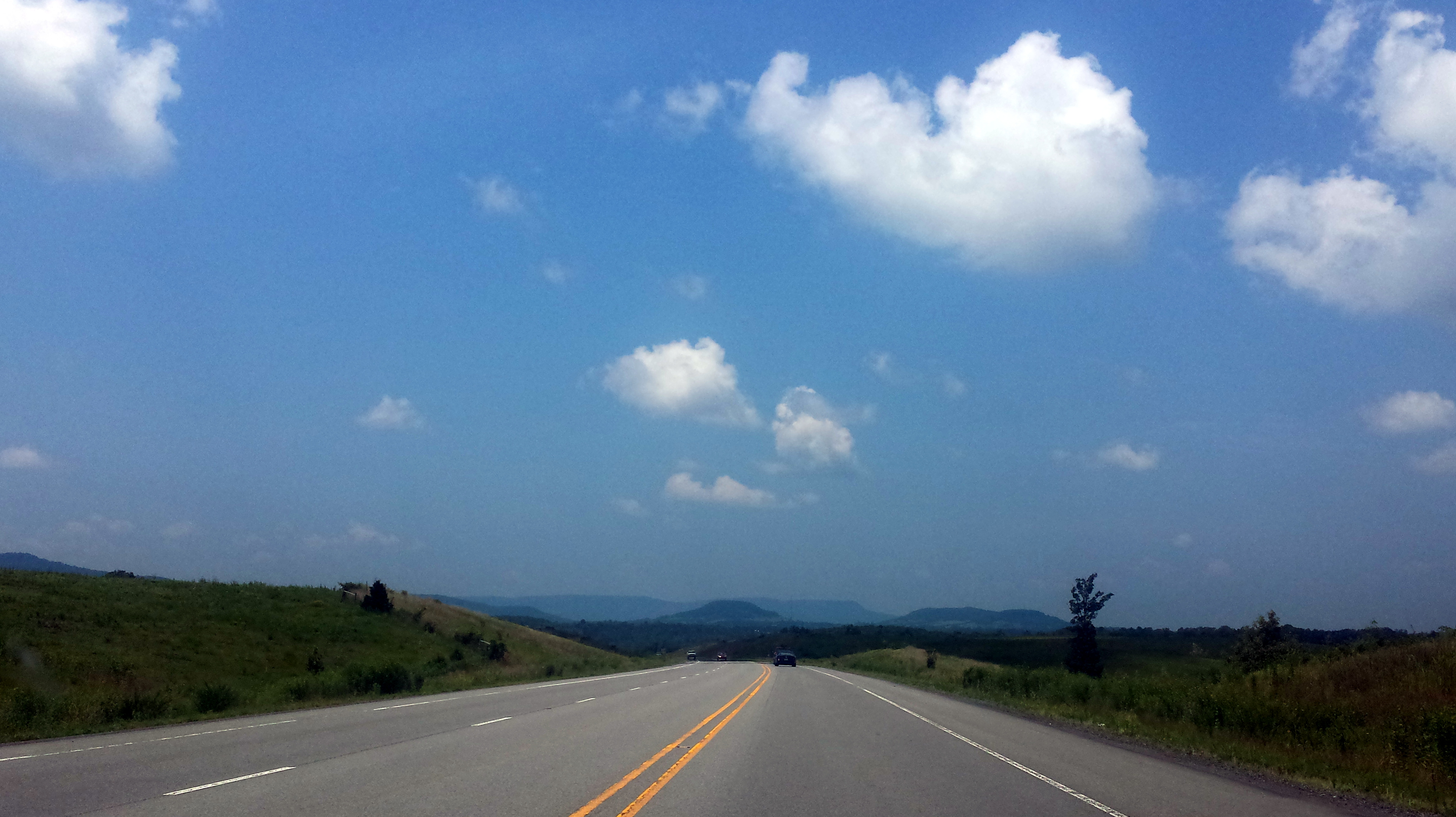 Highway 65 in Searcy County, AR